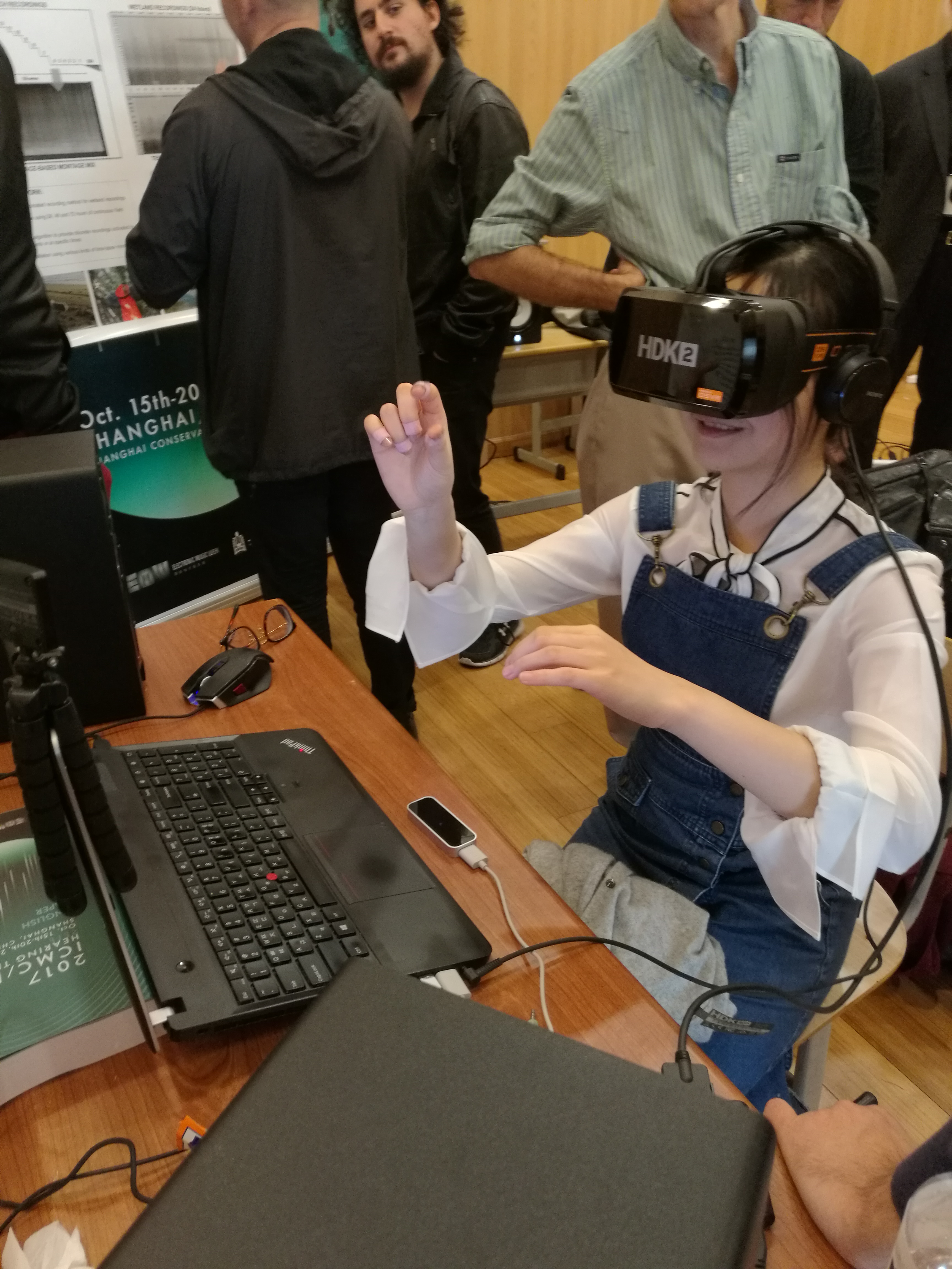 VR based music performance